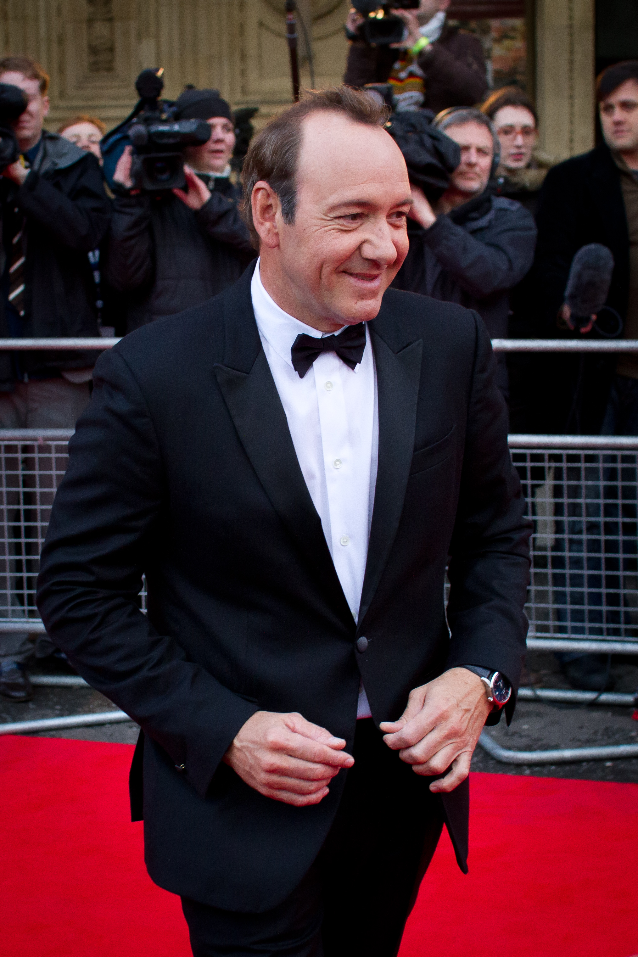 Arriving at Mikhail Gorbachev's 80th birthday concert.